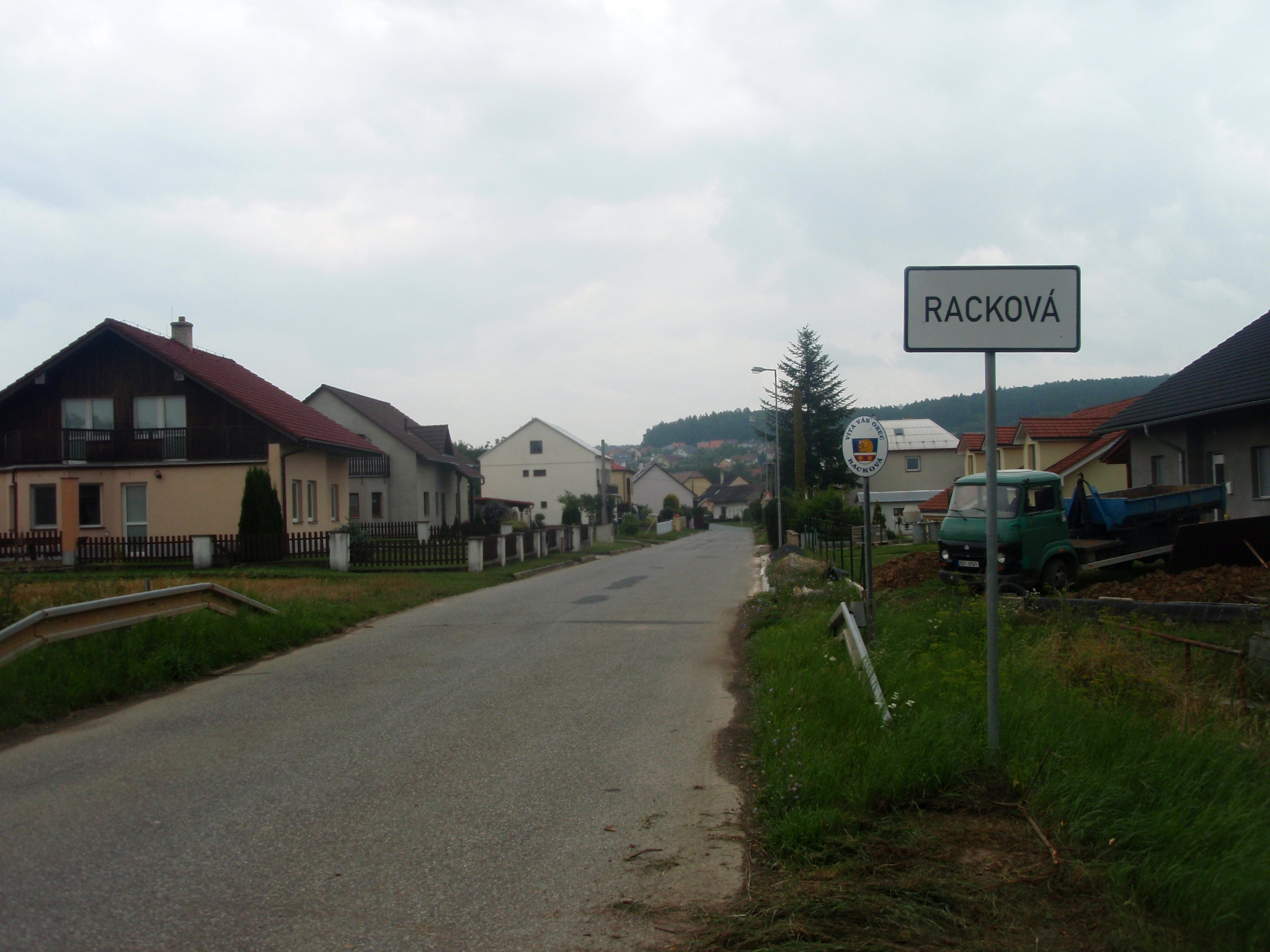 Racková, Zlín District, Czech Republic.